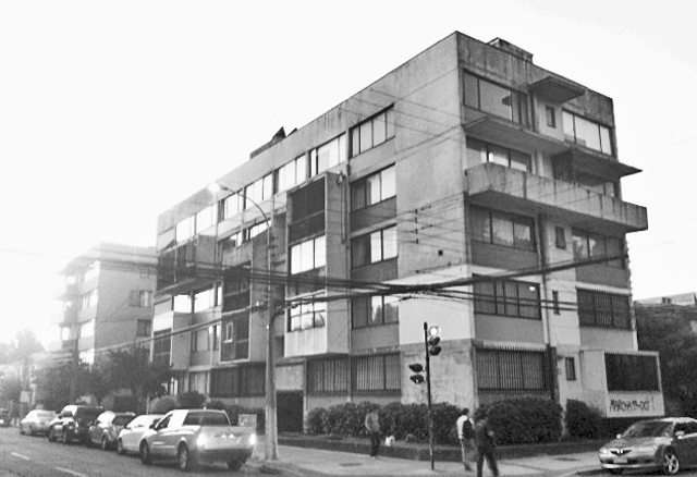 Building Arauco, Cochrane Street No. 891 and 875 - Concepcion. Architects Emilio Duhart and Robert Goycooelea.